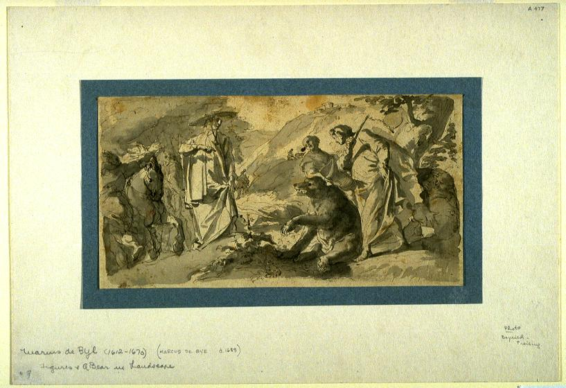 St. Corbinian of Freising and the Bear (brown ink and gray wash)